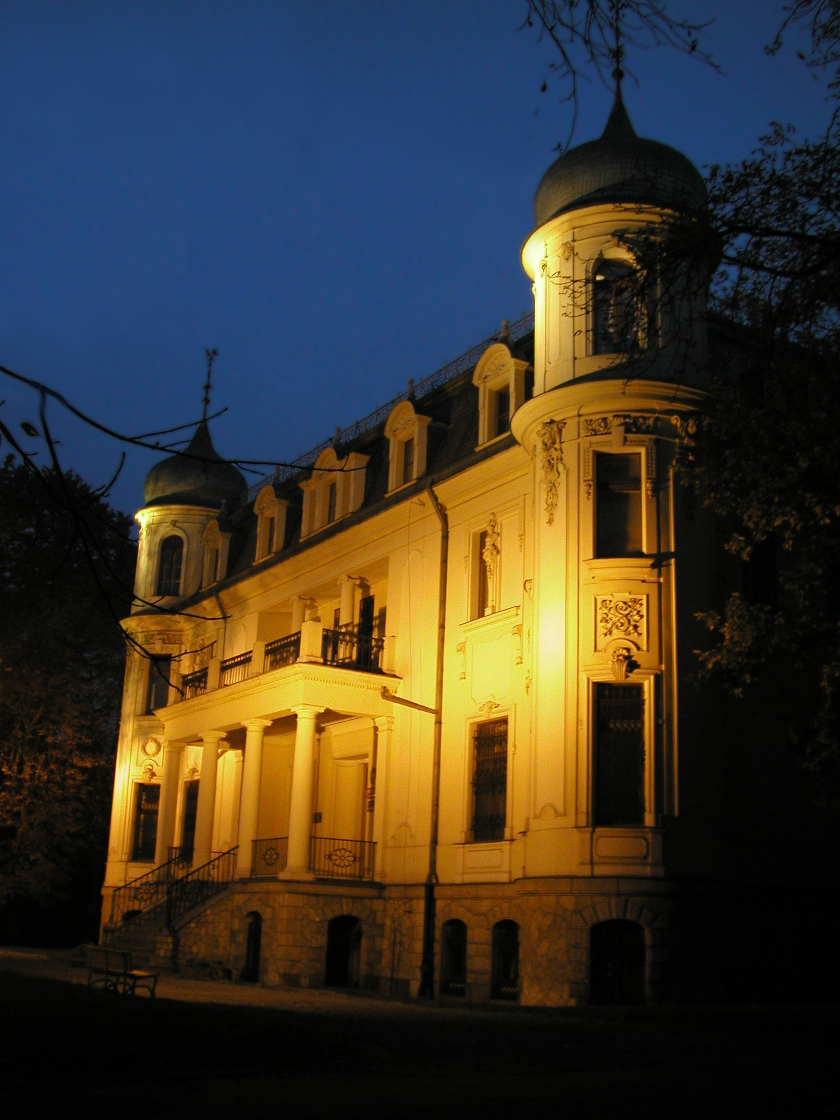 Schöen's Palace in Sosnowiec